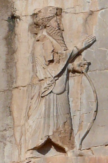 Image of king Xerxes I of persia from his tomb at Naqshe Rustam